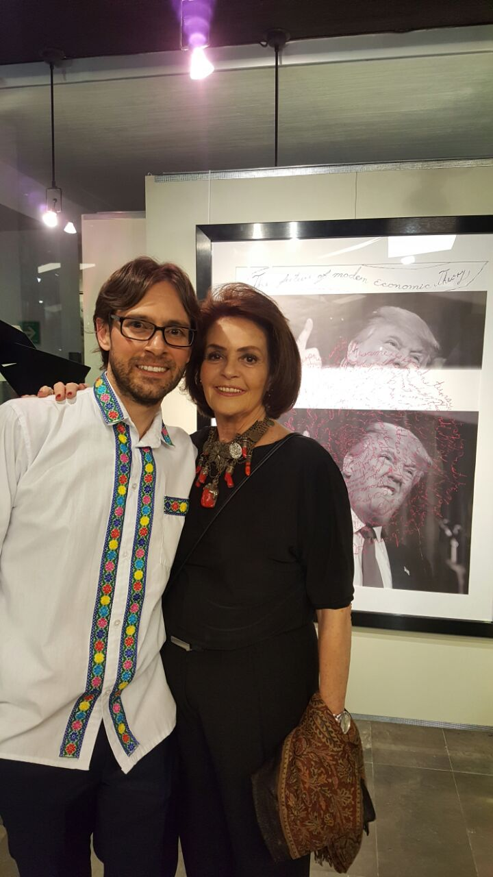 This is a picture of artist Jorge S. del Villar with friend Julieta Perez in the exhibition where art piece "The Future of Modern Economic Theory" was exposed